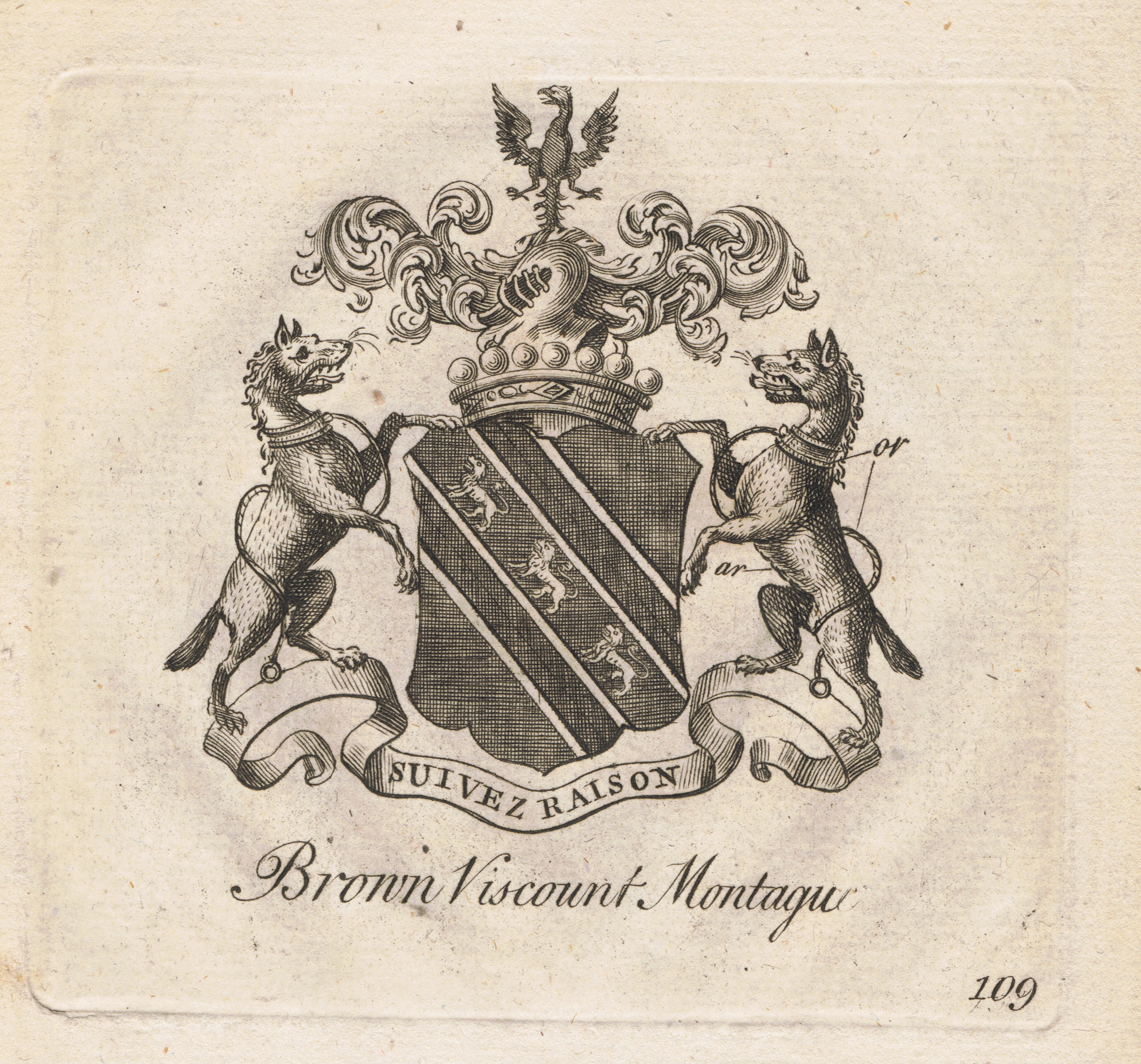 Scan (by me, R. de Salis, Rodolph (talk) 19:33, 23 January 2015 (UTC)) of the coat of arms of Browne, for the Viscounts Montagu, of Cowdray, Sussex.